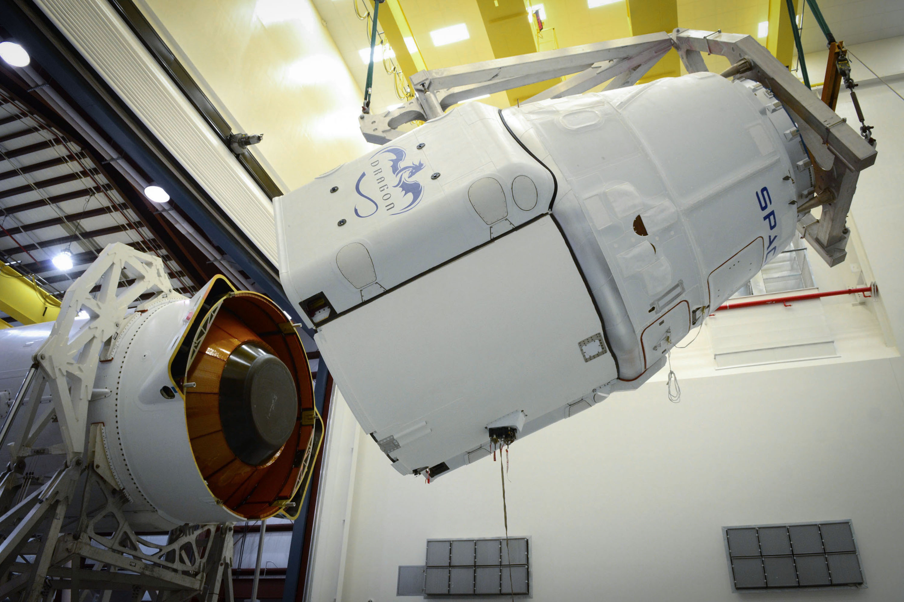 SpaceX’s Falcon 9 rocket and Dragon spacecraft launched from Launch Complex 40 at the Cape Canaveral Air Force Station, Florida, for their third official Commercial Resupply (CRS) mission to the orbiting lab on April 18, 2014. Dragon returned to Earth with a parachute-assisted splashdown off the coast of southern California on May 14, 2014. Dragon is the only operational spacecraft capable of returning a significant amount of supplies back to Earth, including experiments.